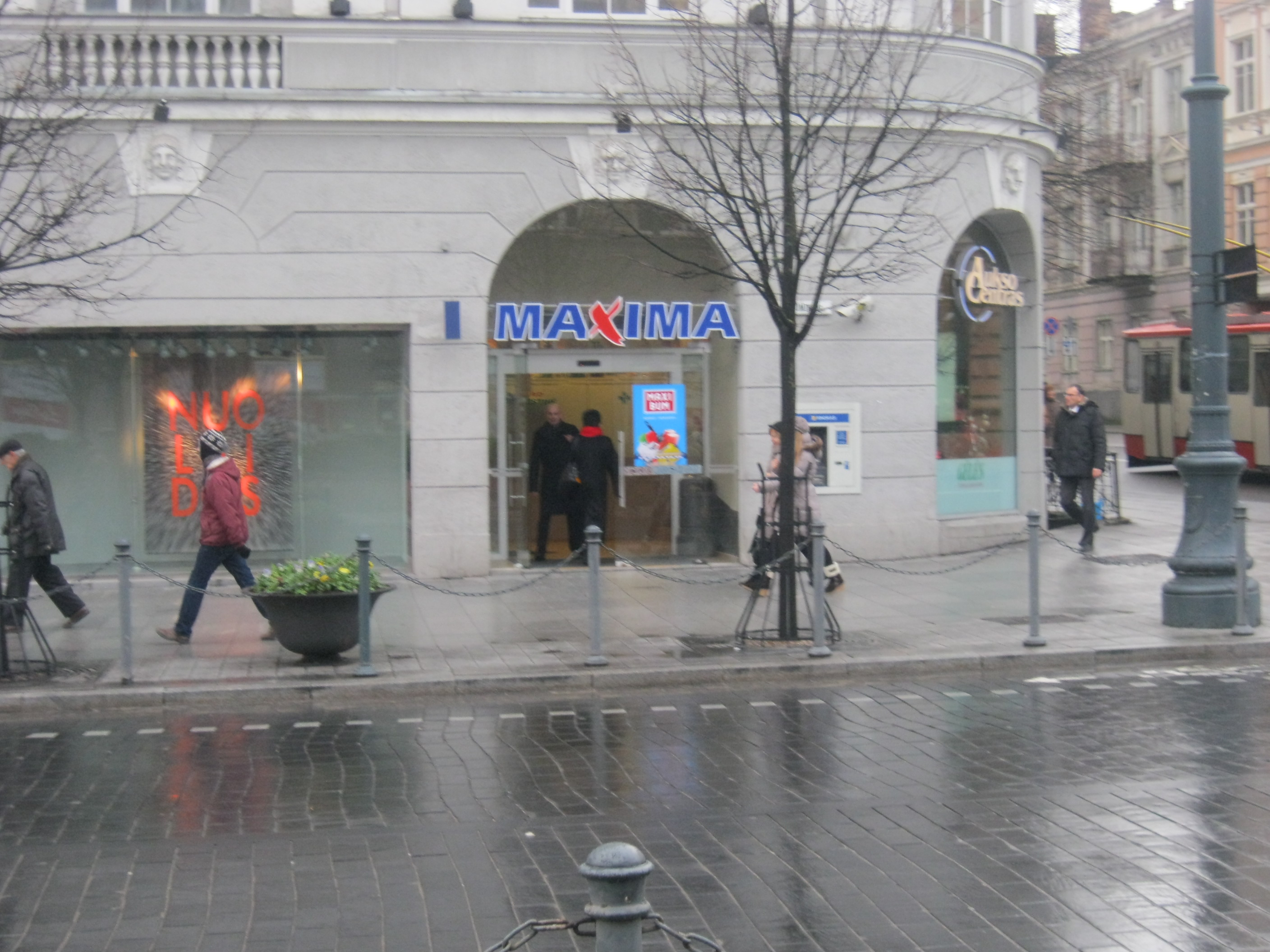 A picture of the entrance to a Maxima supermarket in Gedimino prospektas, Vilnius, Lithuania